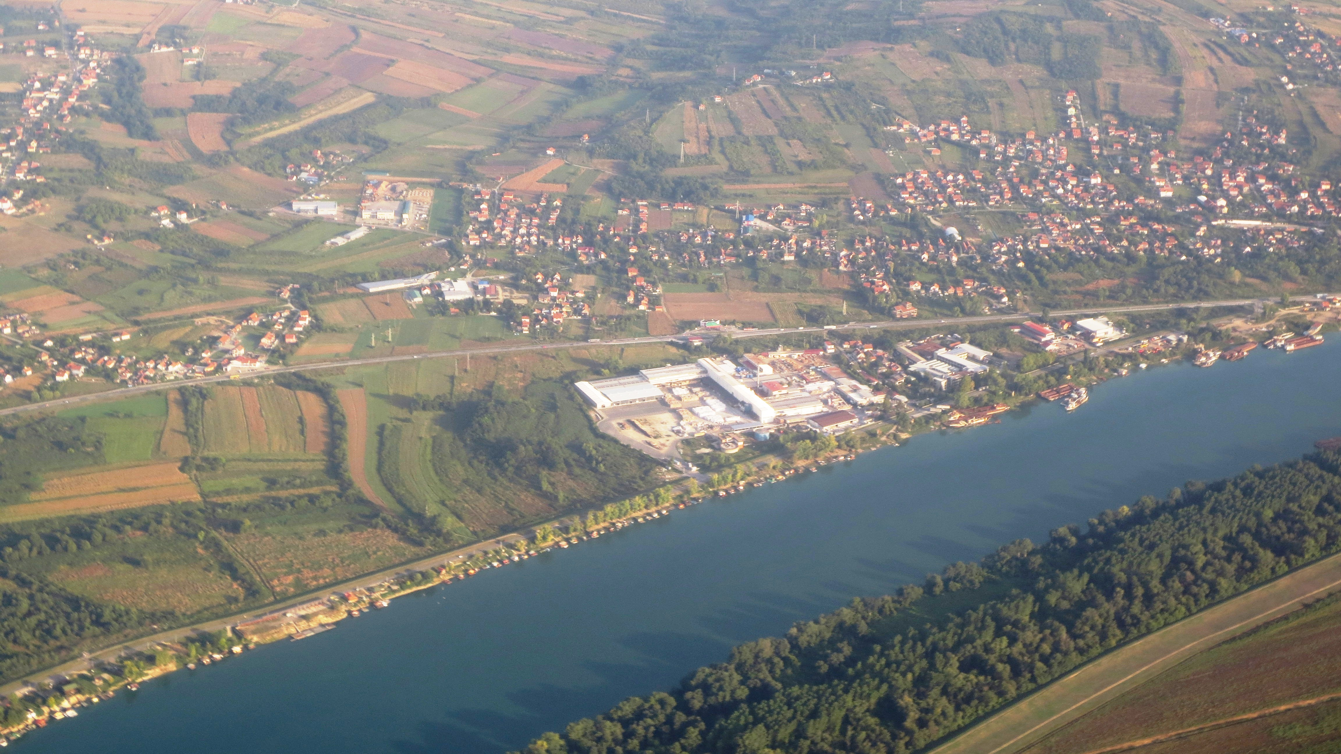 Sava River by Umka, in the Čukarica municipality, eastern Beograd, Serbia